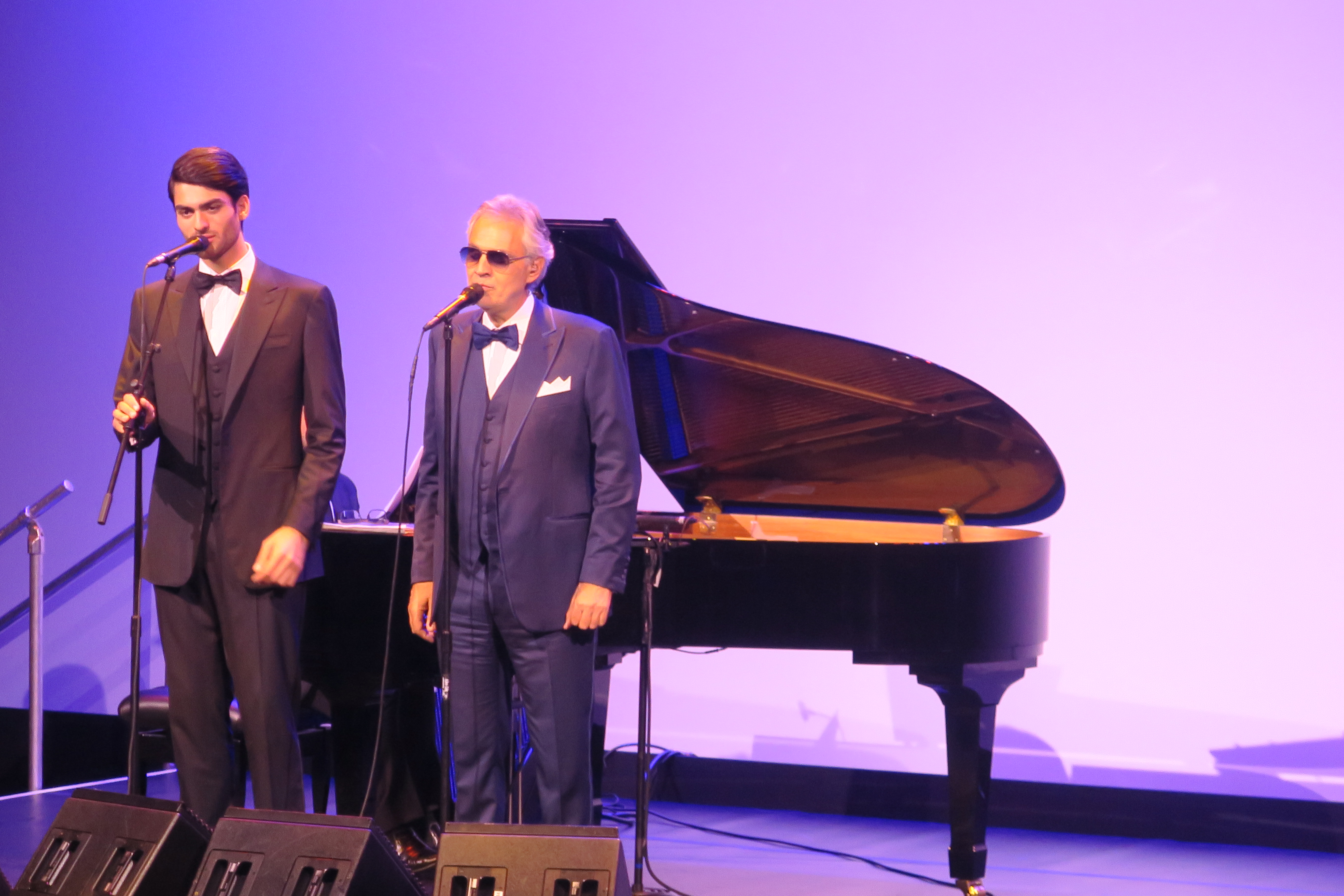 New York. Presentazione nuovo disco presso 10 Corso Como